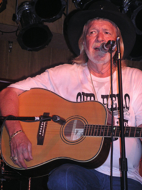 Country artist Mel McDaniel at benefit concert in 2006